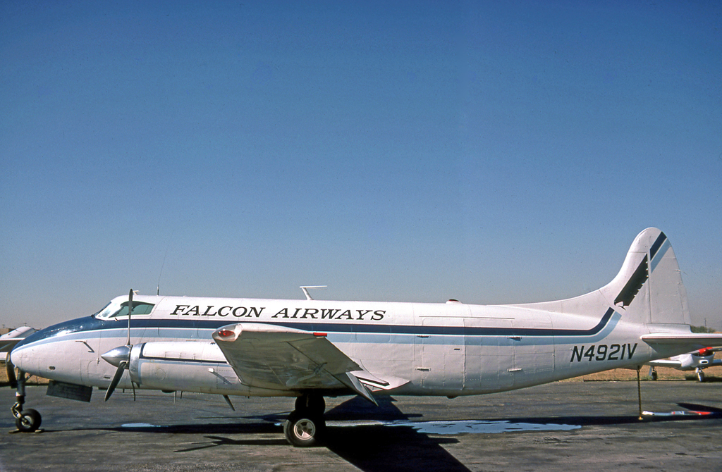 De Havilland Dove 1 N4921V of Falcon Airways at Dallas Addison Airport in 1975 after conversion to Carstedt CJ600 standard